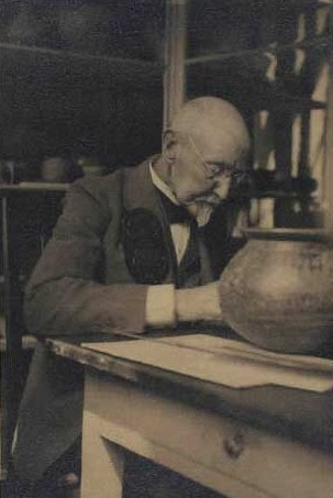 Sophus Otto Müller (1846-1934), Danish archaeologist and museum director